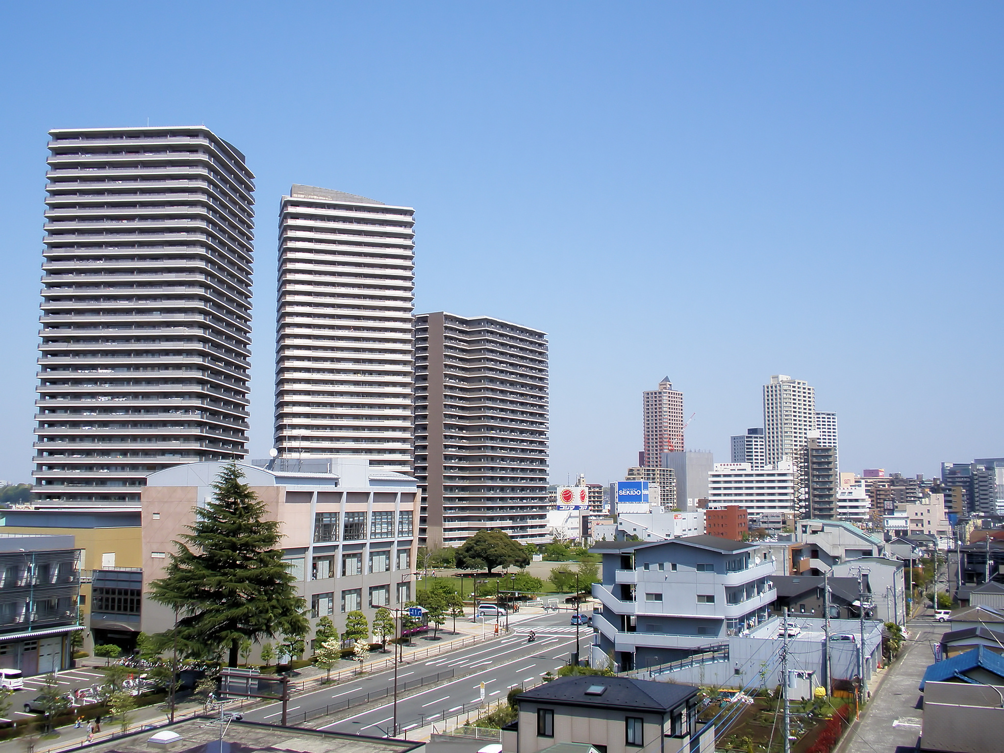 Hashimoto, Midori-ku, Sagamihara.